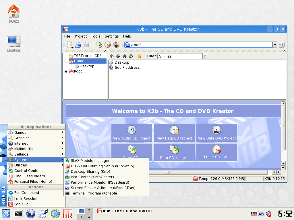 SLAX Server Edition Screenshot